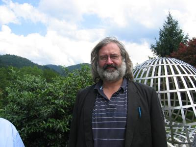 Mathematician Helmut Hofer at a workshop on “Dynamical Systems” in Oberwolfach, 2005.